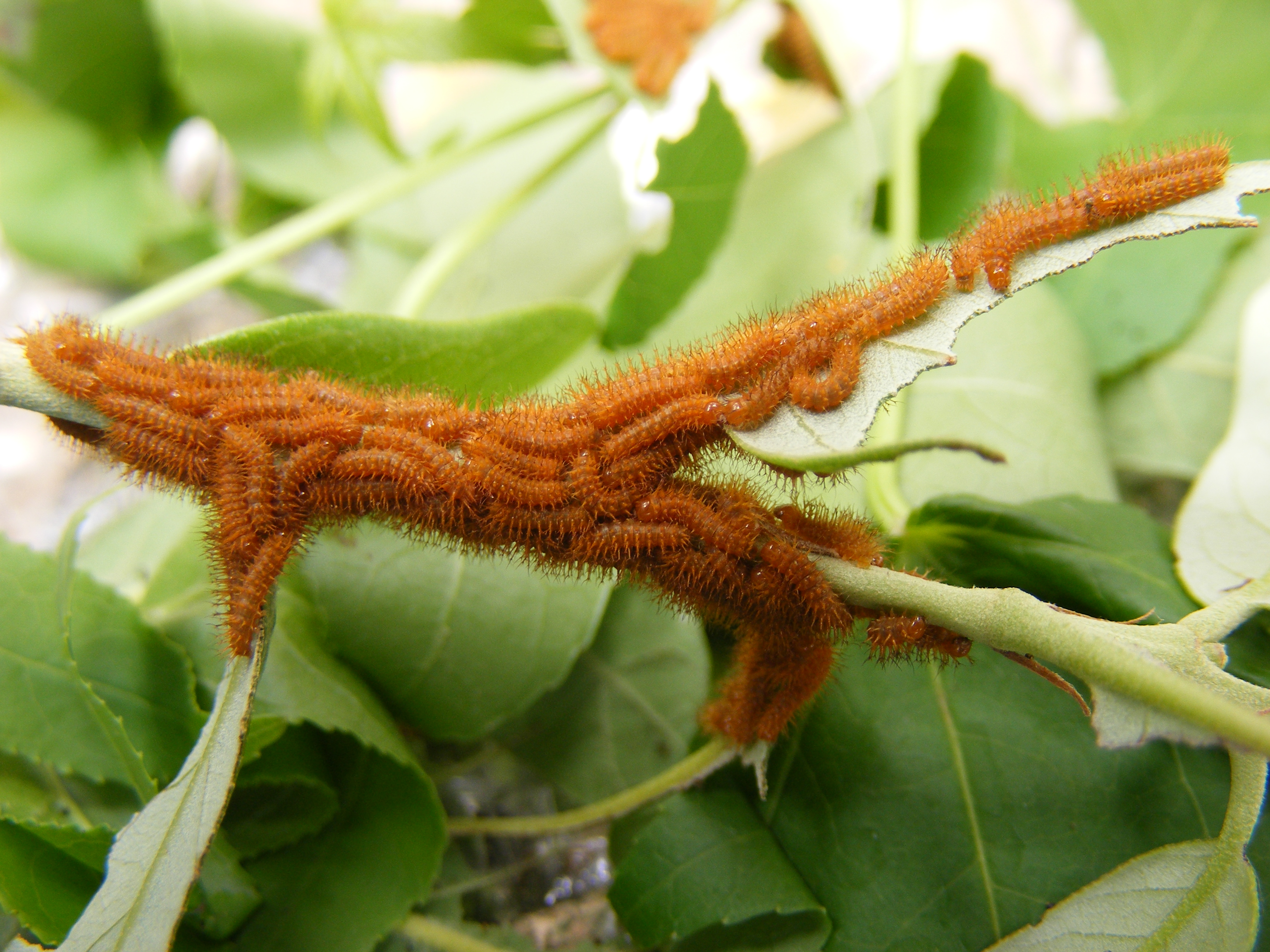 Automeris io 1st instar larvae raised on Quercus virginiana (Southern live oak) and Liquidambar styraciflua (American Sweetgum).